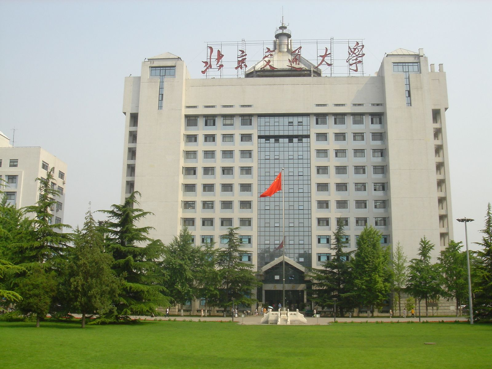 Siyuan Building at BJTU, the main administrative Building